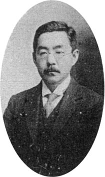 Seiichi Terano, Director of Koshu Gakko.